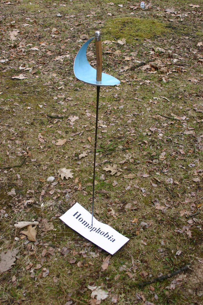 Against Homophobia